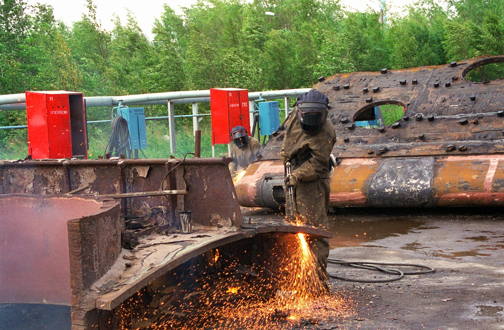 “Nuclear submarine salvaging”. Zvezdochka Co. salvages nuclear submarines in Severodvinsk, in the Russian northwest.